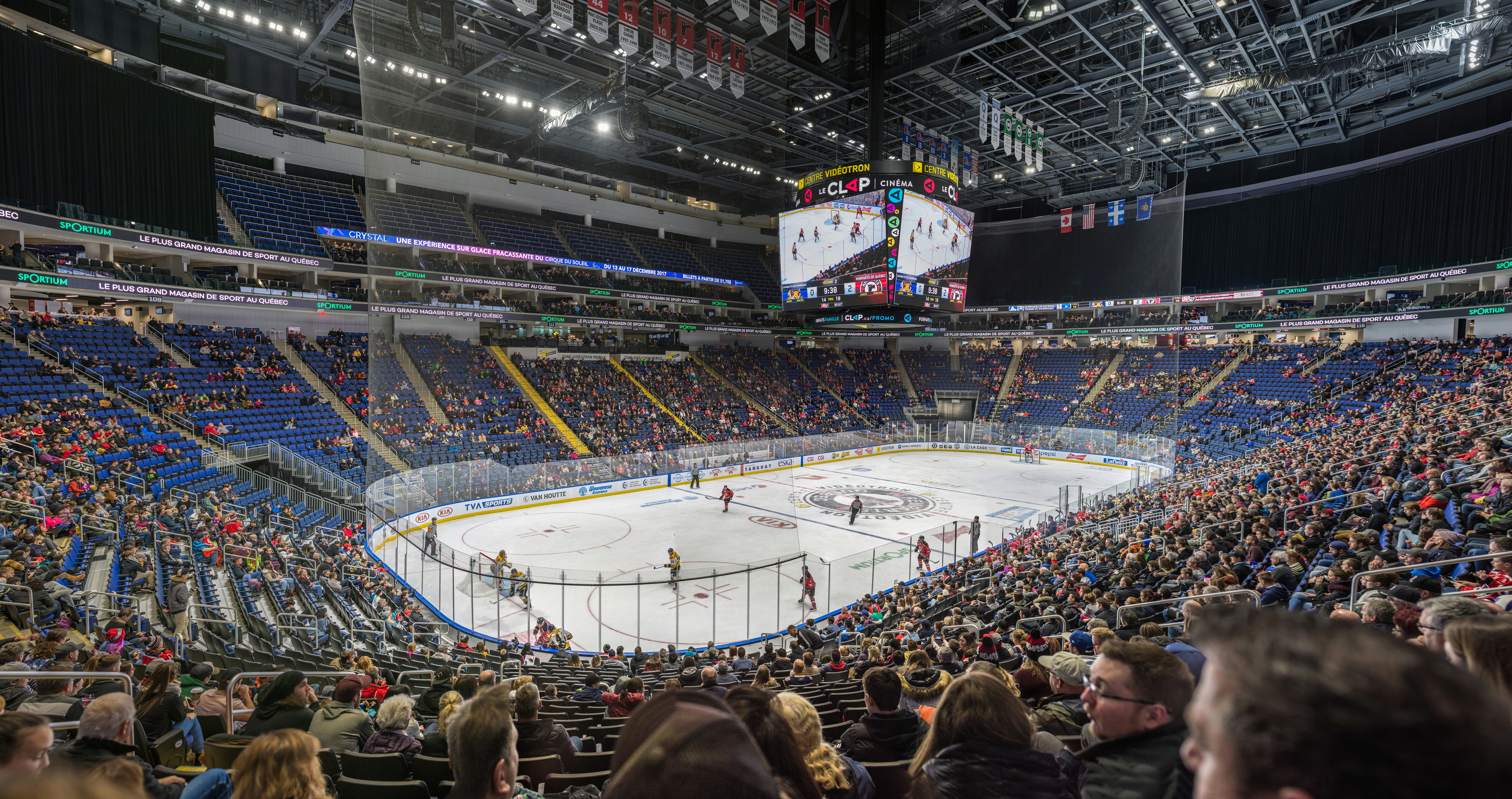 remparts de Quebec vs Cataractes de Shawinigan on Centre Videotron